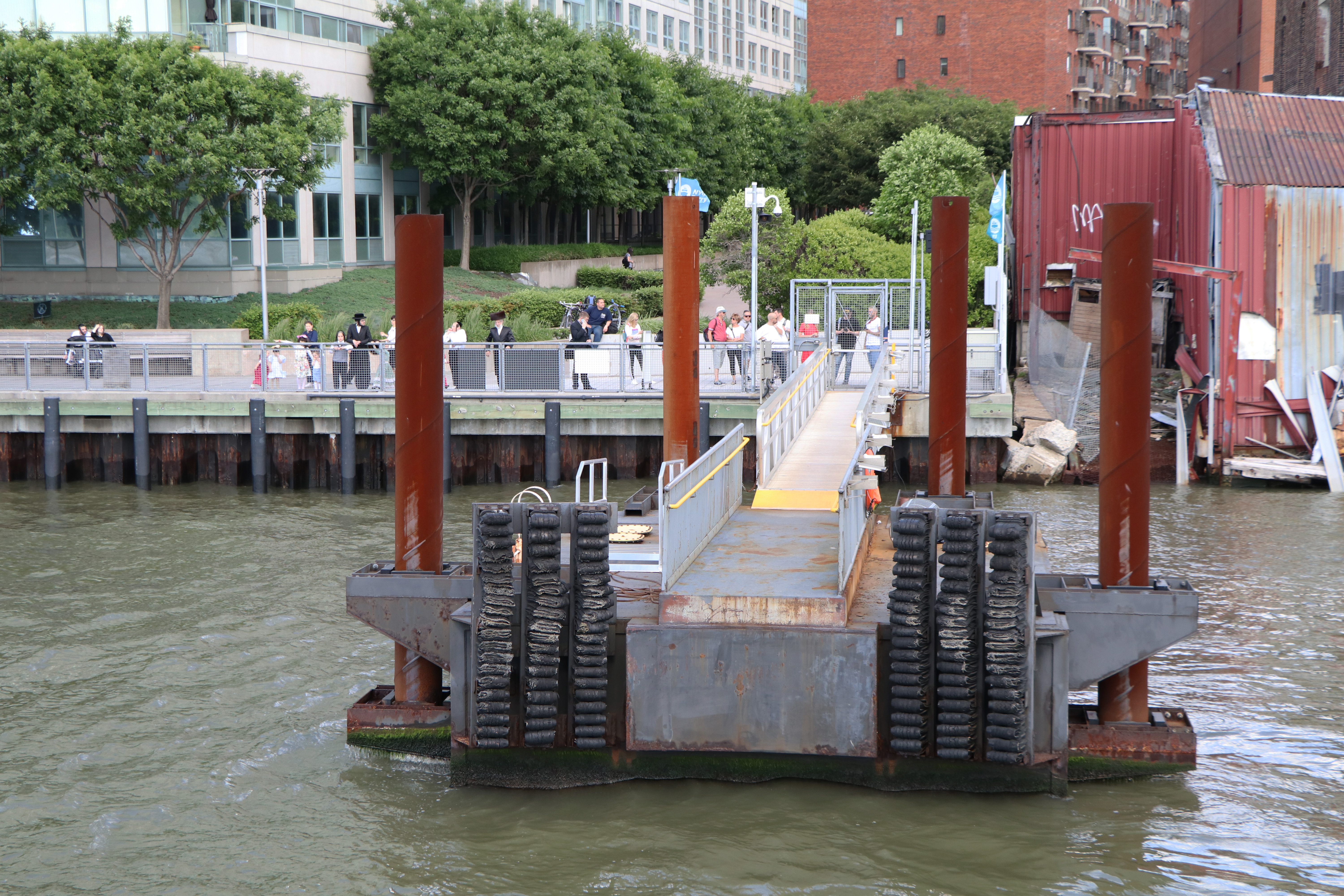 NYC Ferry arrives South Williamsburg.